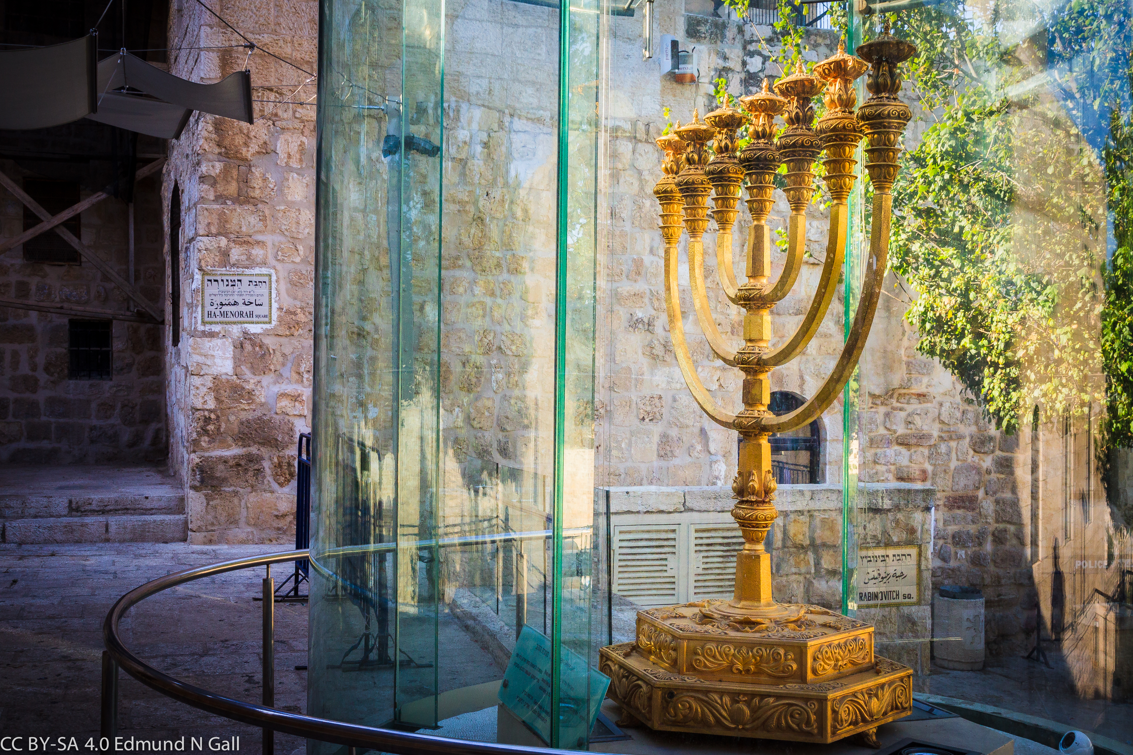 The Golden Menorah on the way to the Western Wall in the Jewish Quarter...